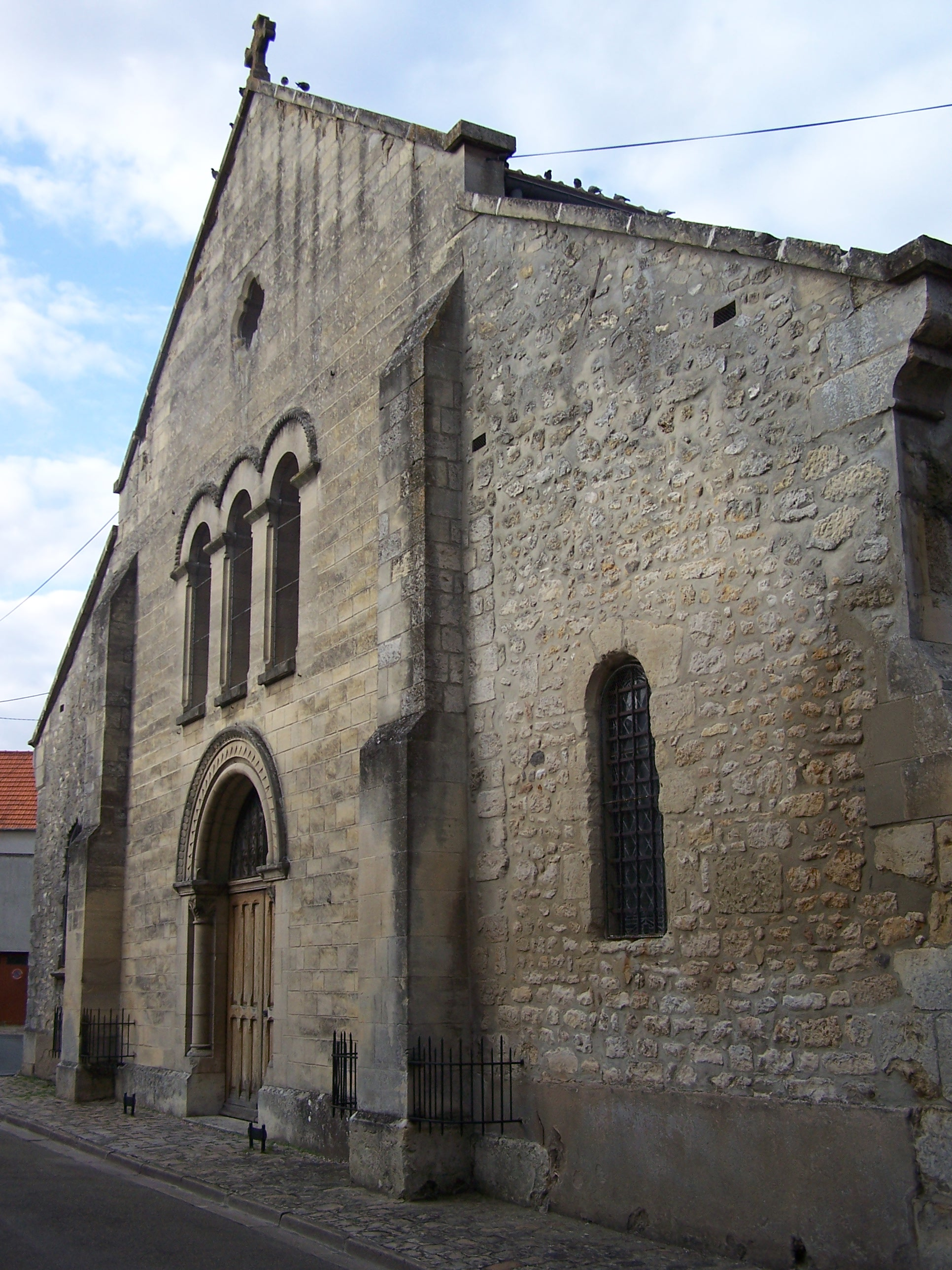 Church Saint-Germain of Villepreux (Yvelines, France). Personal photo. Auteur/Author : Henry Salomé